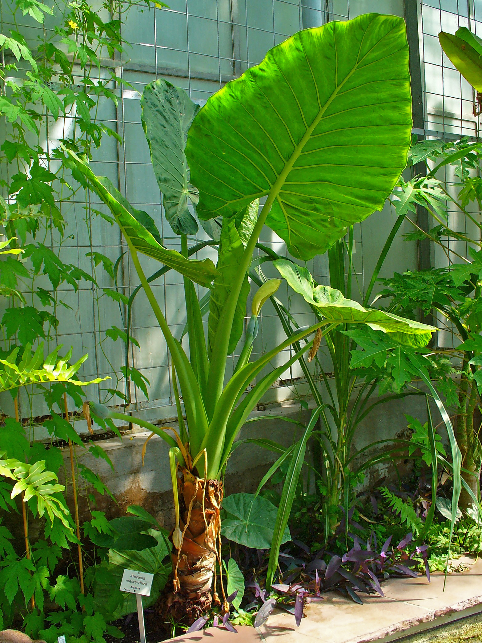 Alocasia macrorrhizos, Araceae, Giant Taro, Elephant Ear Taro, habitus; Botanical Garden KIT, Karlsruhe, Germany.